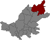 Location of Querol in Alt Camp